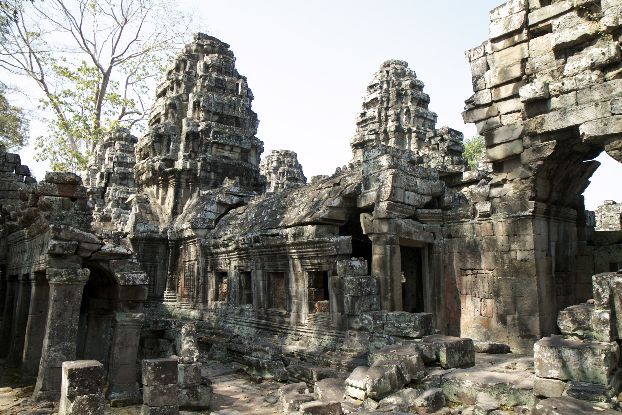 Banteay Kdei